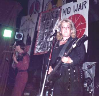 Poison Girls pic by G Burnett